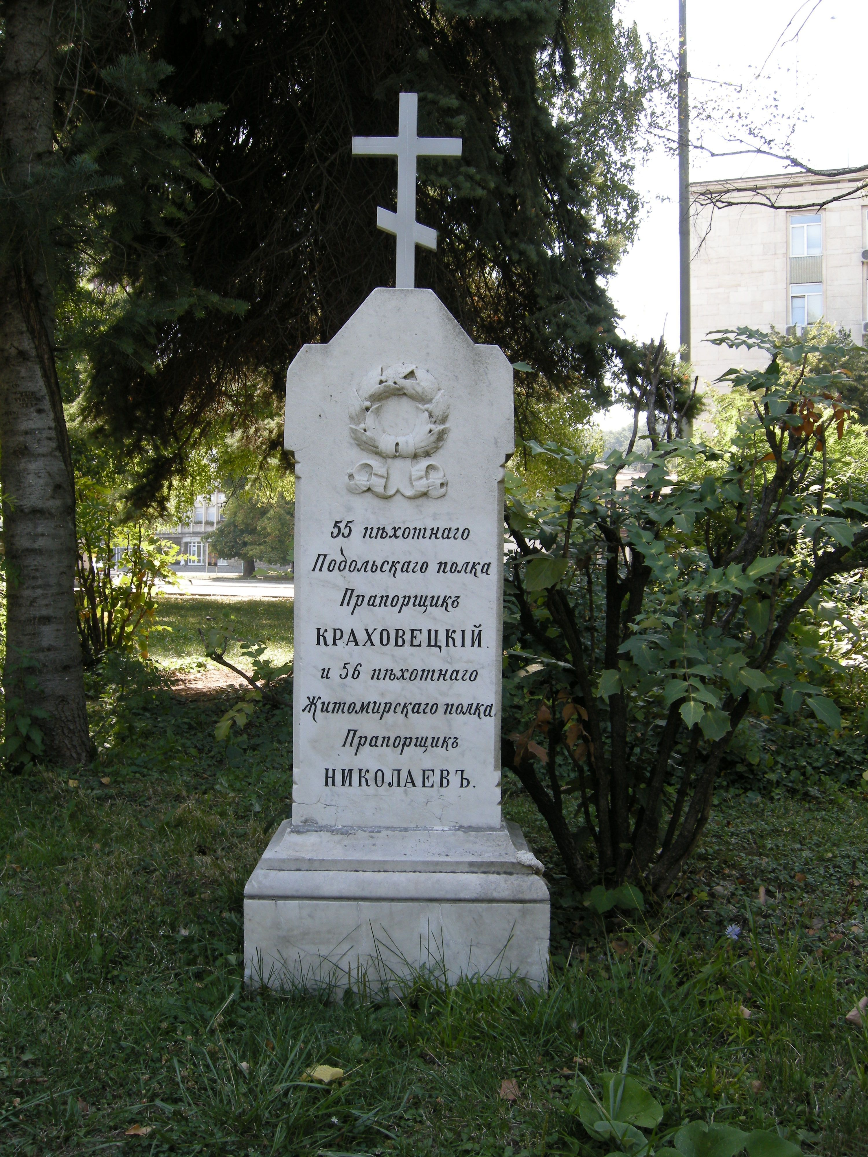 Monument of russian officers, died in the War for liberation of Bulgaria from the Ottoman yoke, 1877-1878.